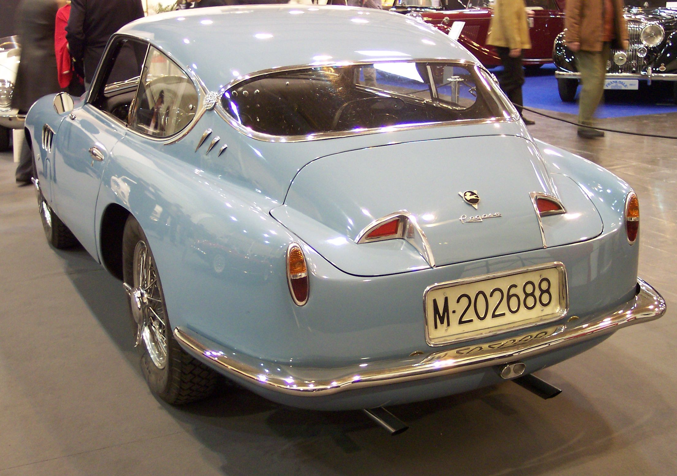 Techno-Classica 2007, Pegaso Z 102 B Series 2 Berlinetta Touring, 5 gears, 3178 cc, 168 kw (230 HP)